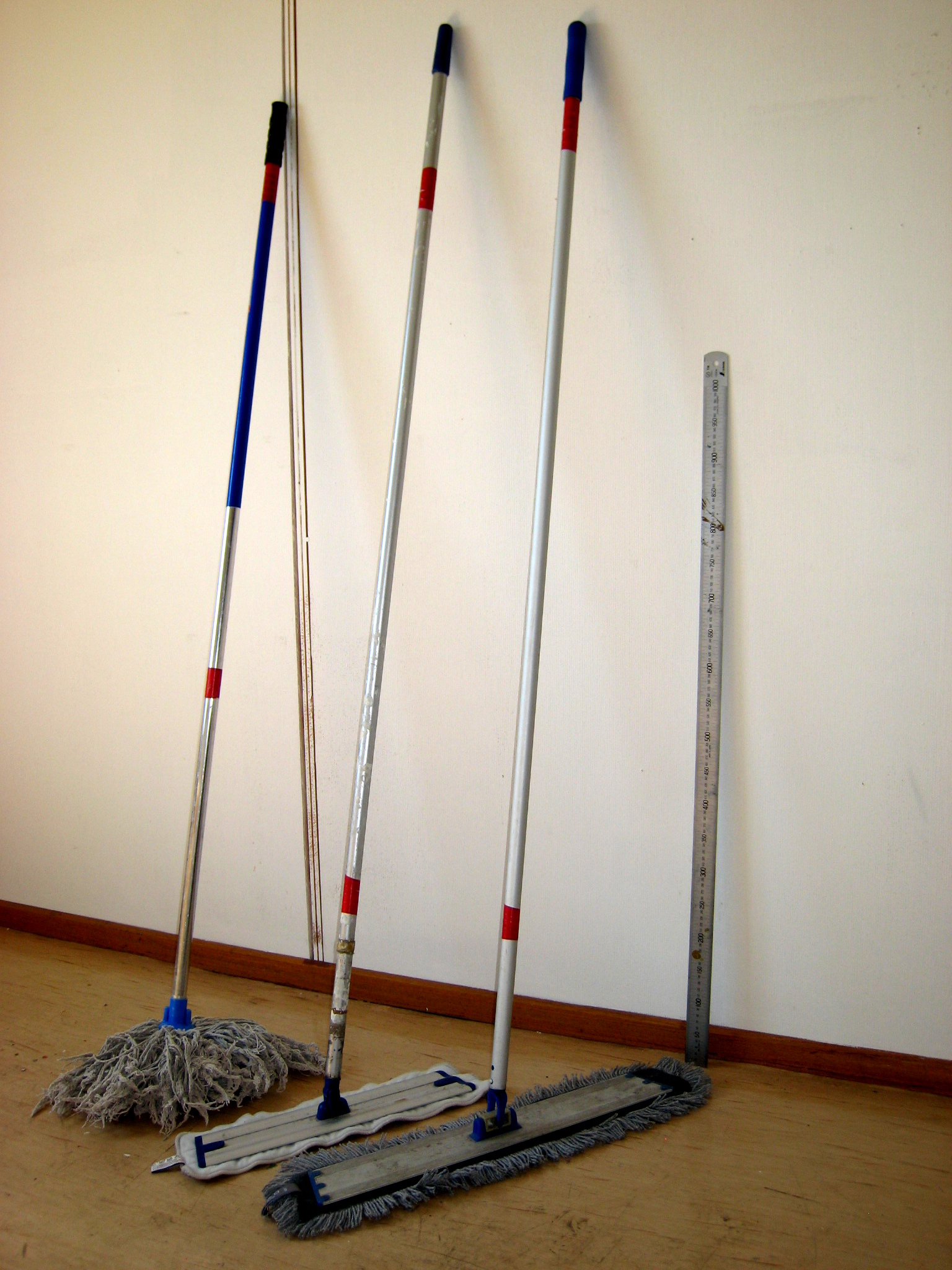 Three different mop handles with mops. From left: 1: Classic yarn mop handle, threaded fastening 2: 50 cm mop handle, velcro fastening 3: 60 cm mop handle, velcro fastening